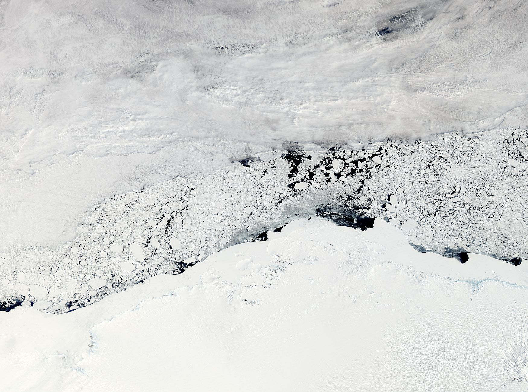 NASA image acquired November 3, 2011 The Moderate Resolution Imaging Spectroradiometer (MODIS) instrument on NASA's Aqua satellite captured this image of Enderby Land, Antarctica on November 3, 2011 at 11:20 UTC (7:20 a.m. EDT). The ice and snow appear bright white at the bottom of the image. Clouds grace the top of the image, and sea ice floats in William Scoresby Bay. Enderby Land is an Antarctic land mass that extends from Shinnan Glacier to William Scoresby Bay. Discovered in 1831, it was named after the Enderby Brothers of London. Operation Ice Bridge is exploring Antarctic ice, and more information can be found at Image Credit: NASA Goddard MODIS Rapid Response Team NASA image use policy. NASA Goddard Space Flight Center enables NASA’s mission through four scientific endeavors: Earth Science, Heliophysics, Solar System Exploration, and Astrophysics. Goddard plays a leading role in NASA’s accomplishments by contributing compelling scientific knowledge to advance the Agency’s mission.